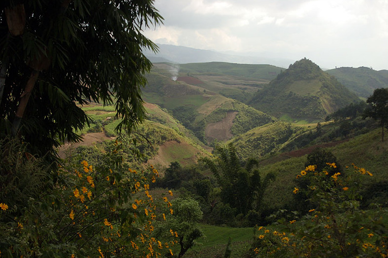 View of a cultivated area from a road in Lincang, Yunnan, China.